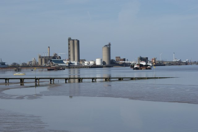 River Thames at Erith Looking upstream along Erith Reach from Erith Deep Wharf, with Erith Oil Works in the distance.